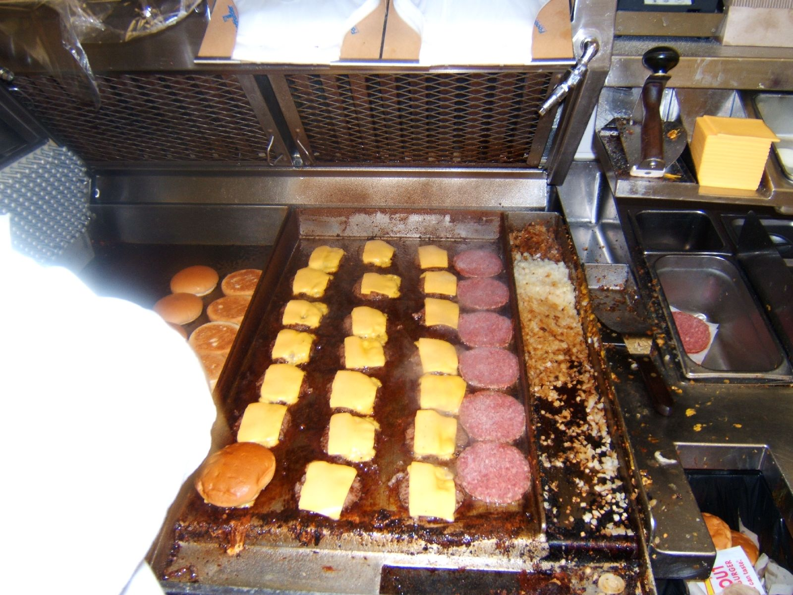 In-N-Out hamburger patties, cheeseburgers, buns, and onions frying on griddle.